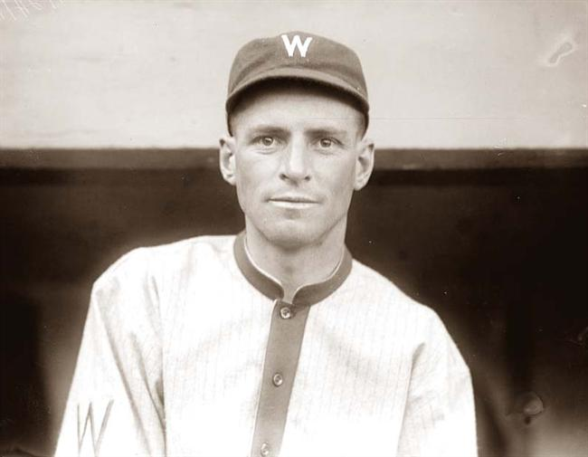 Henri Rondeau of the Washington American League team